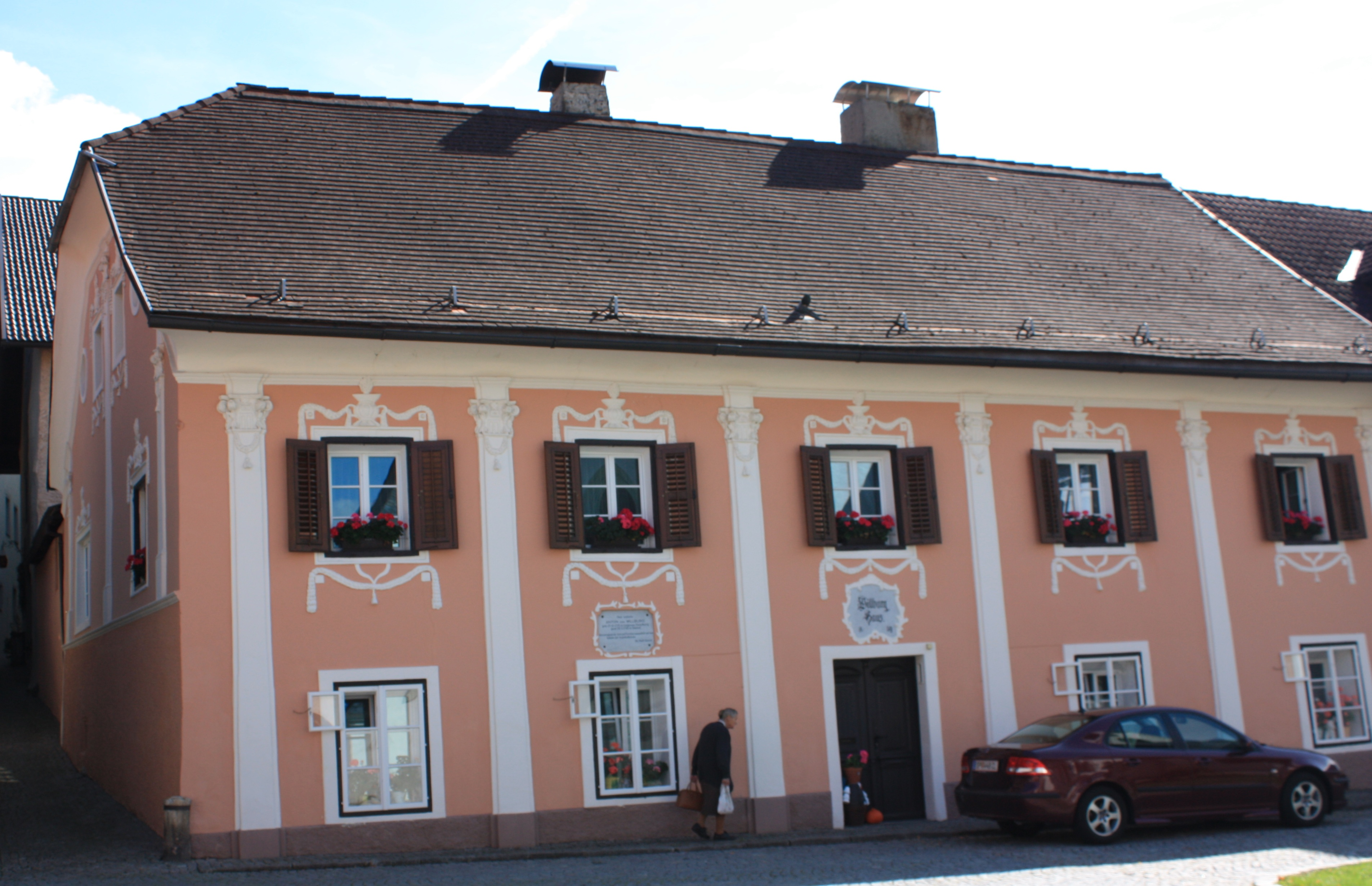 House No 39 Locality:Kirchgasse Community:Gmünd